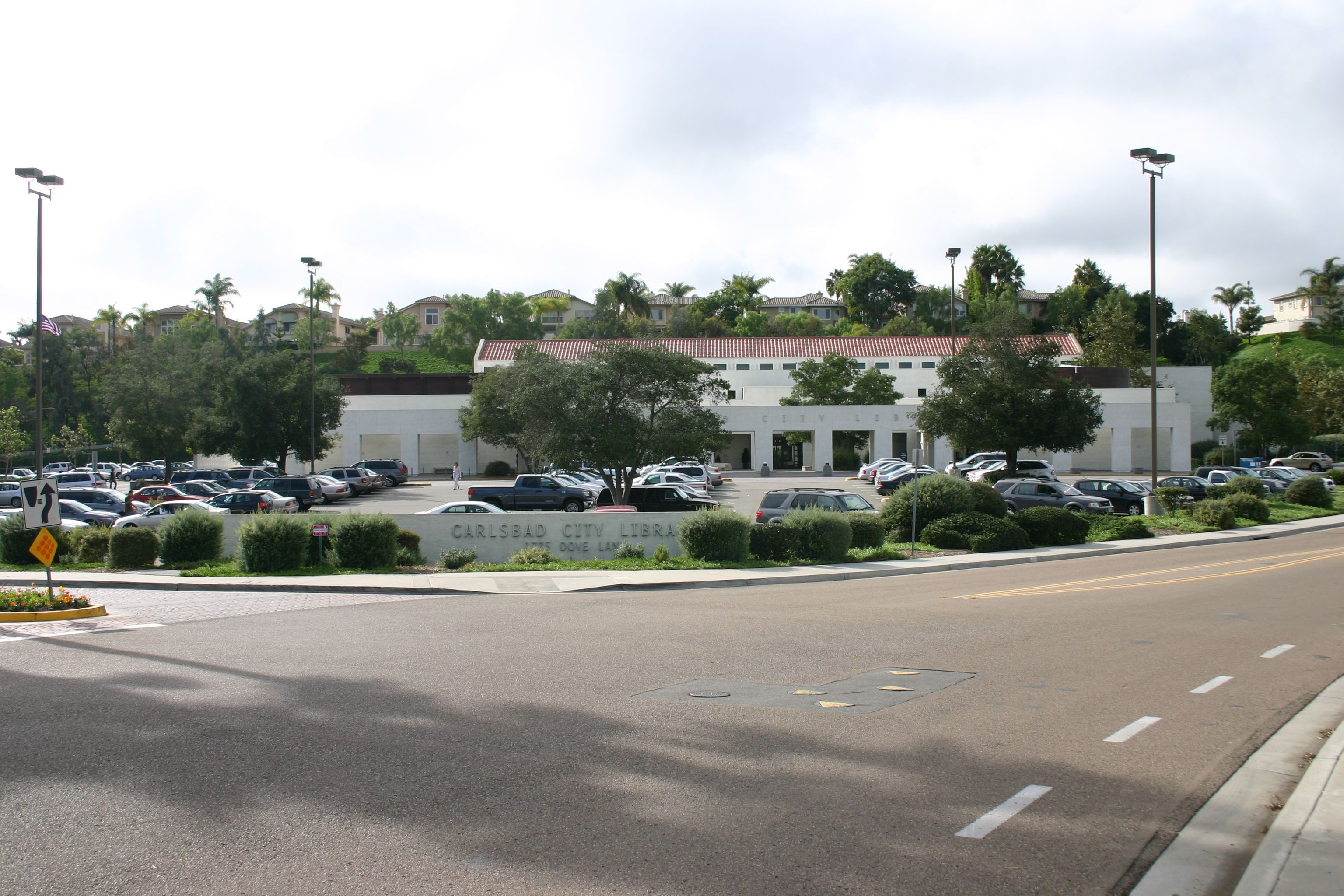 Carlsbad City Library Object location33° 06′ 19.36″ N, 117° 16′ 05.2″ W